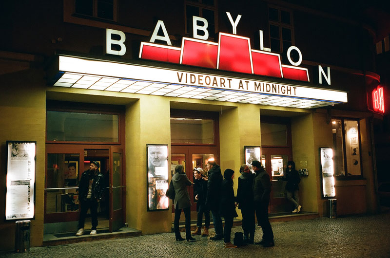 Videoart at Midnight at Babylon Film Theatre